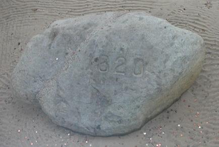 Plymouth Rock, located in Plymouth, Massachusetts, is traditionally said to be the landing site of the Pilgrims.